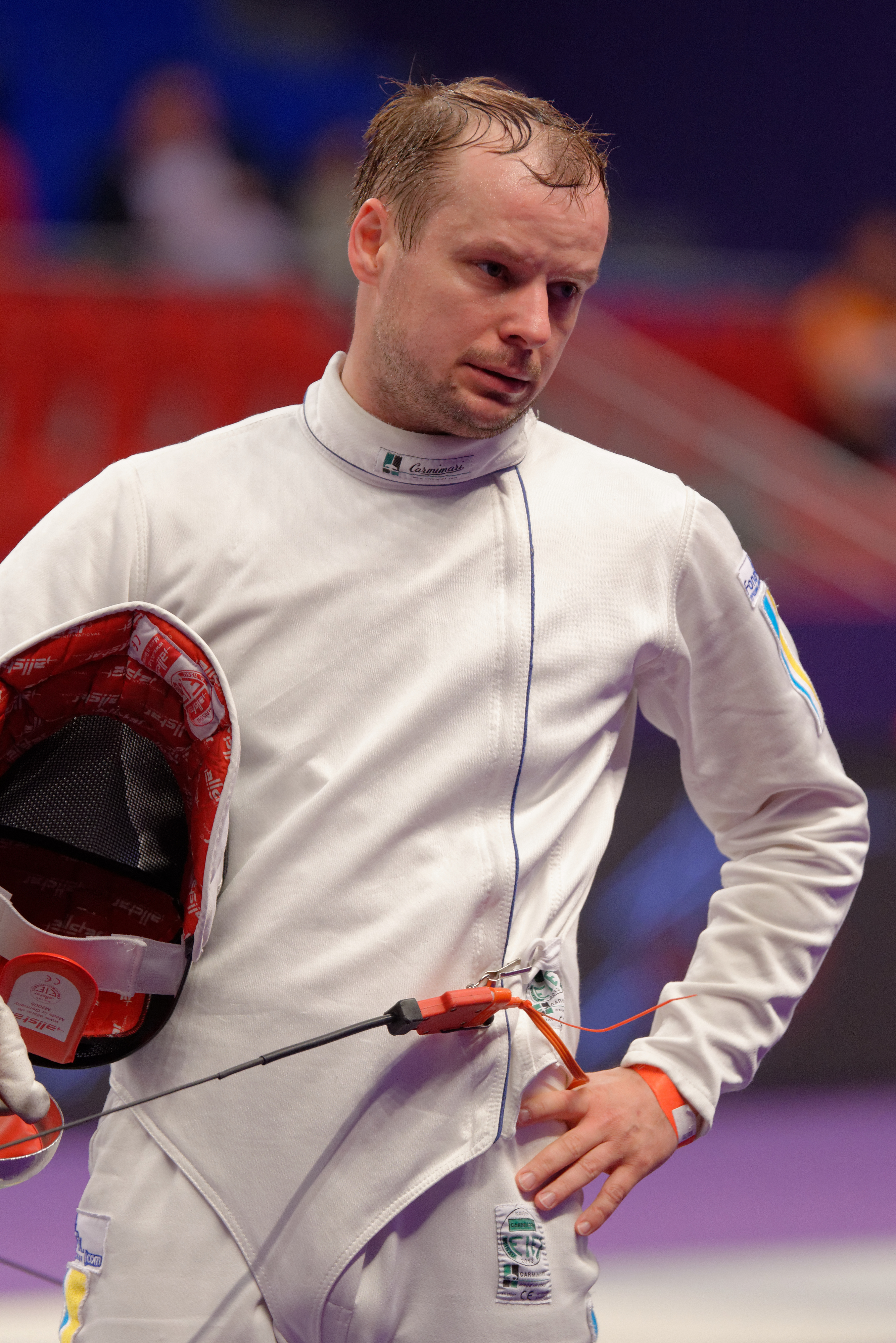 Ukraine's Dmytro Karyuchenko at the Challenge SNCF Réseau-Trophée Monal 2015, a stage of the men's épée World Cup.